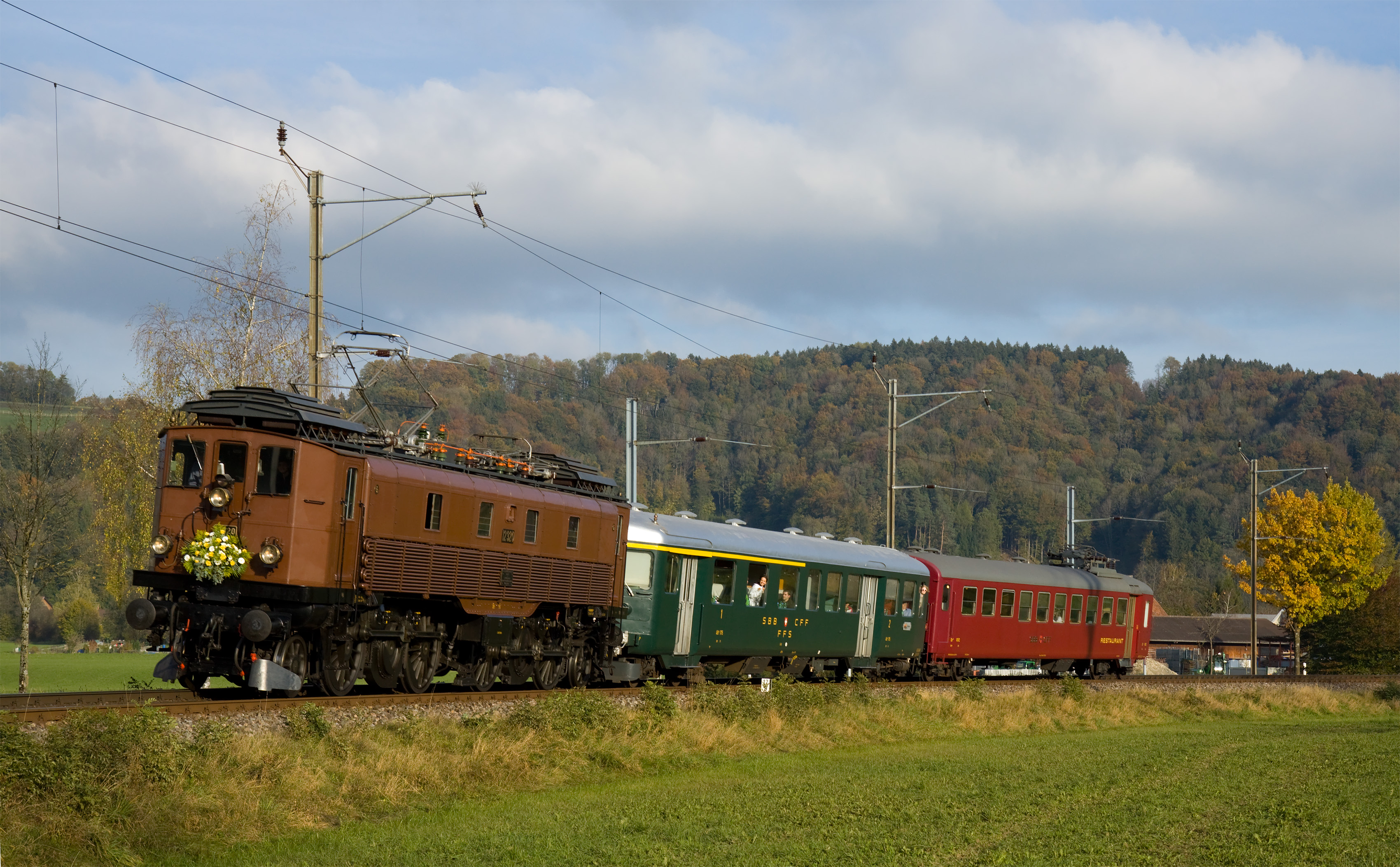 SBB Historic Charter train pulled by Be 4/6 12320 between Rämismühle-Zell and Rikon. Digital alterations: Removed distracting street lights from behind the train